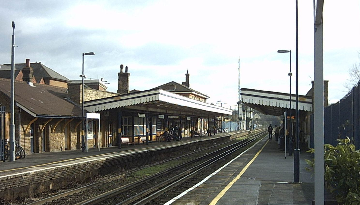 Here is a view of Canterbury East Platforms, this picture was taken by Daniel Leach (atomicdanny)